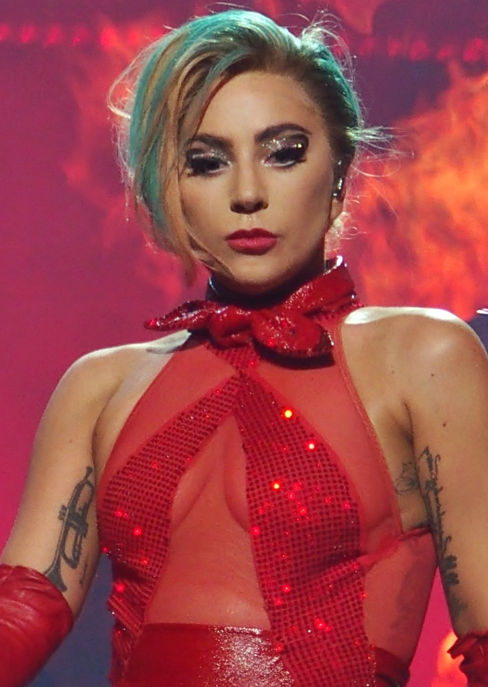 Lady Gaga performing "Bloody Mary" on the Joanne World Tour